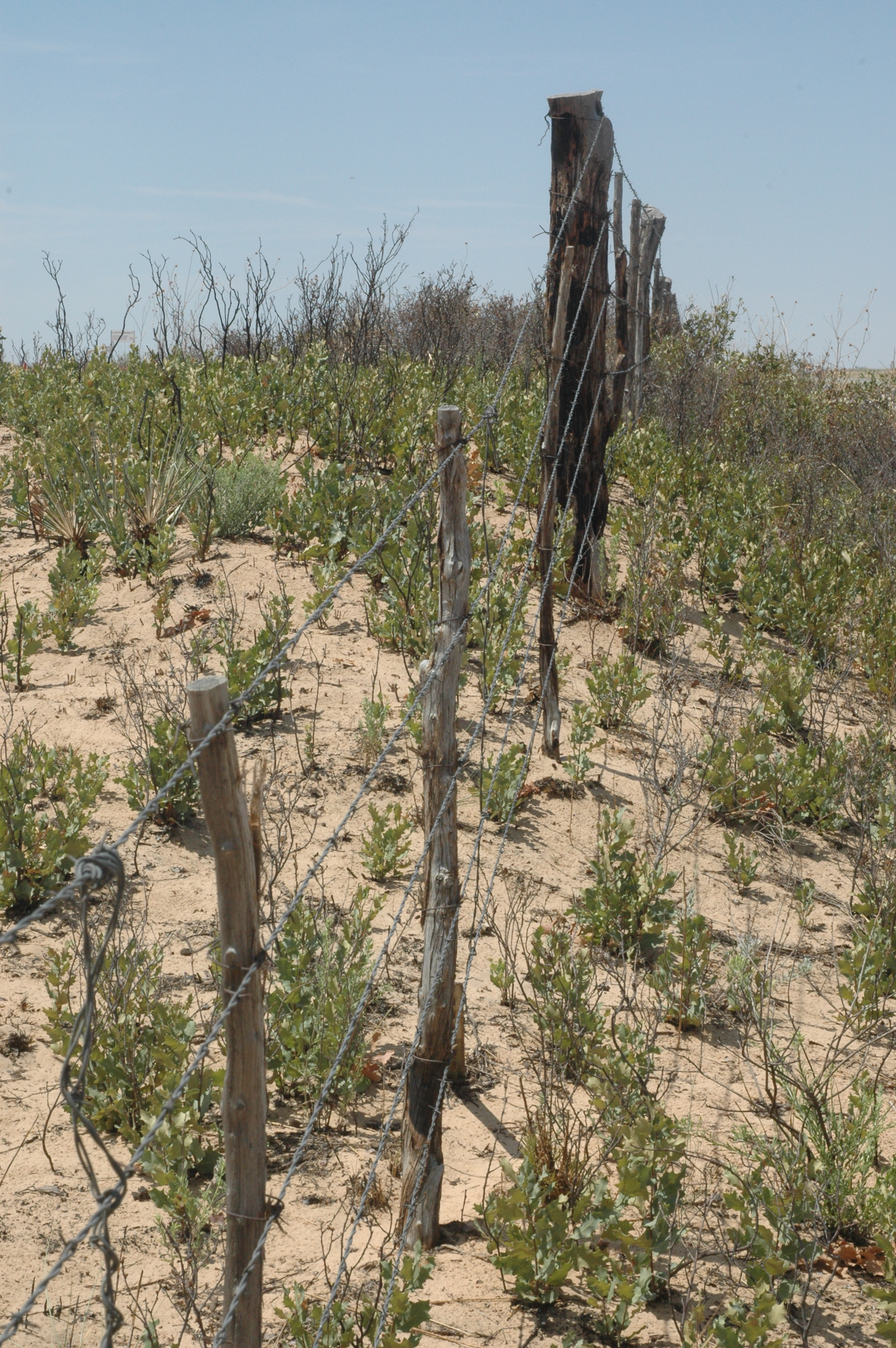 Quercus havardii resprouting following disturbance along a west Texas highway.